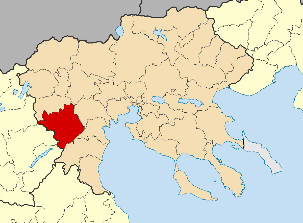 Locator map for Veria municipality in Greek region Central Macedonia (2011)